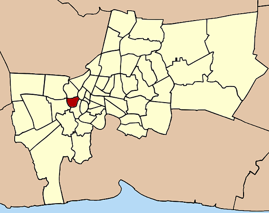 Map of Bangkok, Thailand, highlighting the Bangkok Yai district.